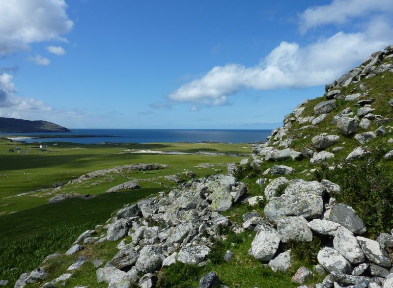 Dun Cuier, a broch on Barra, Outer Hebrides, Scotland